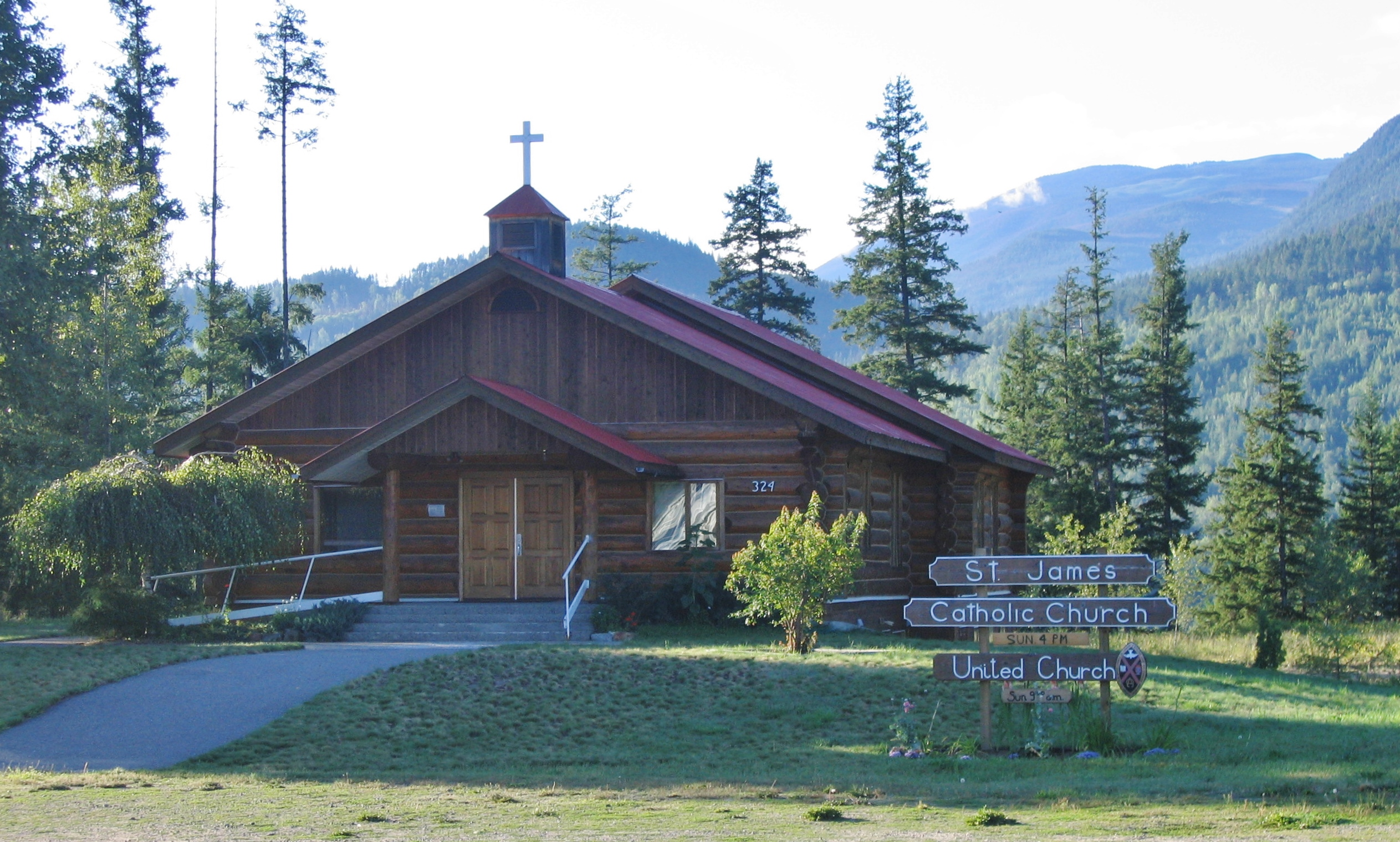 St. James Catholic Chearch in Clearwater